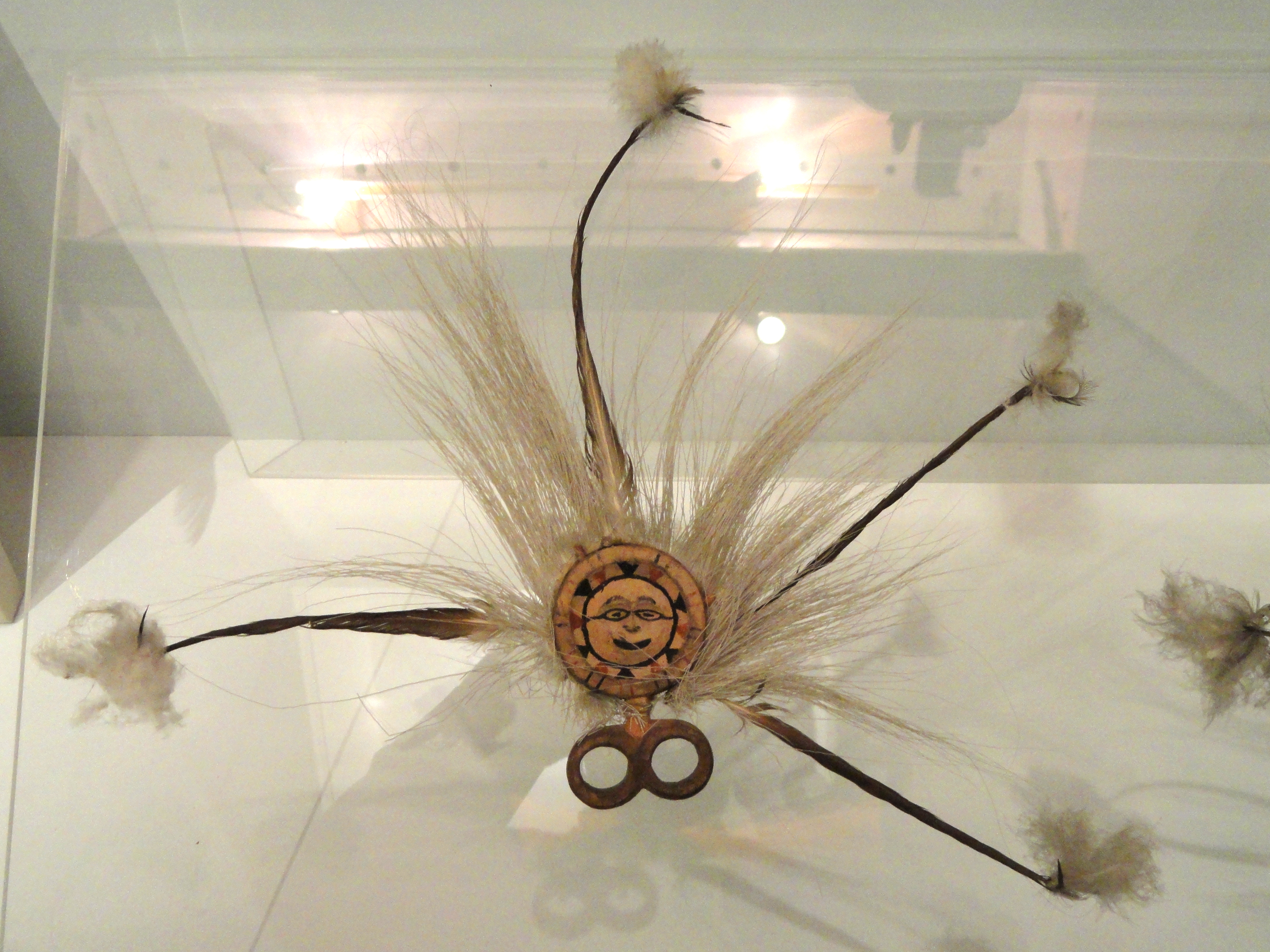 Finger mask, Southwest Alaska Eskimo, collected at Cape Vancouver in 1905. Exhibit from the Native American Collection, Peabody Museum, Harvard University, Cambridge, Massachusetts, USA. Photography was permitted without restriction; exhibit is old enough so that it is in the public domain.